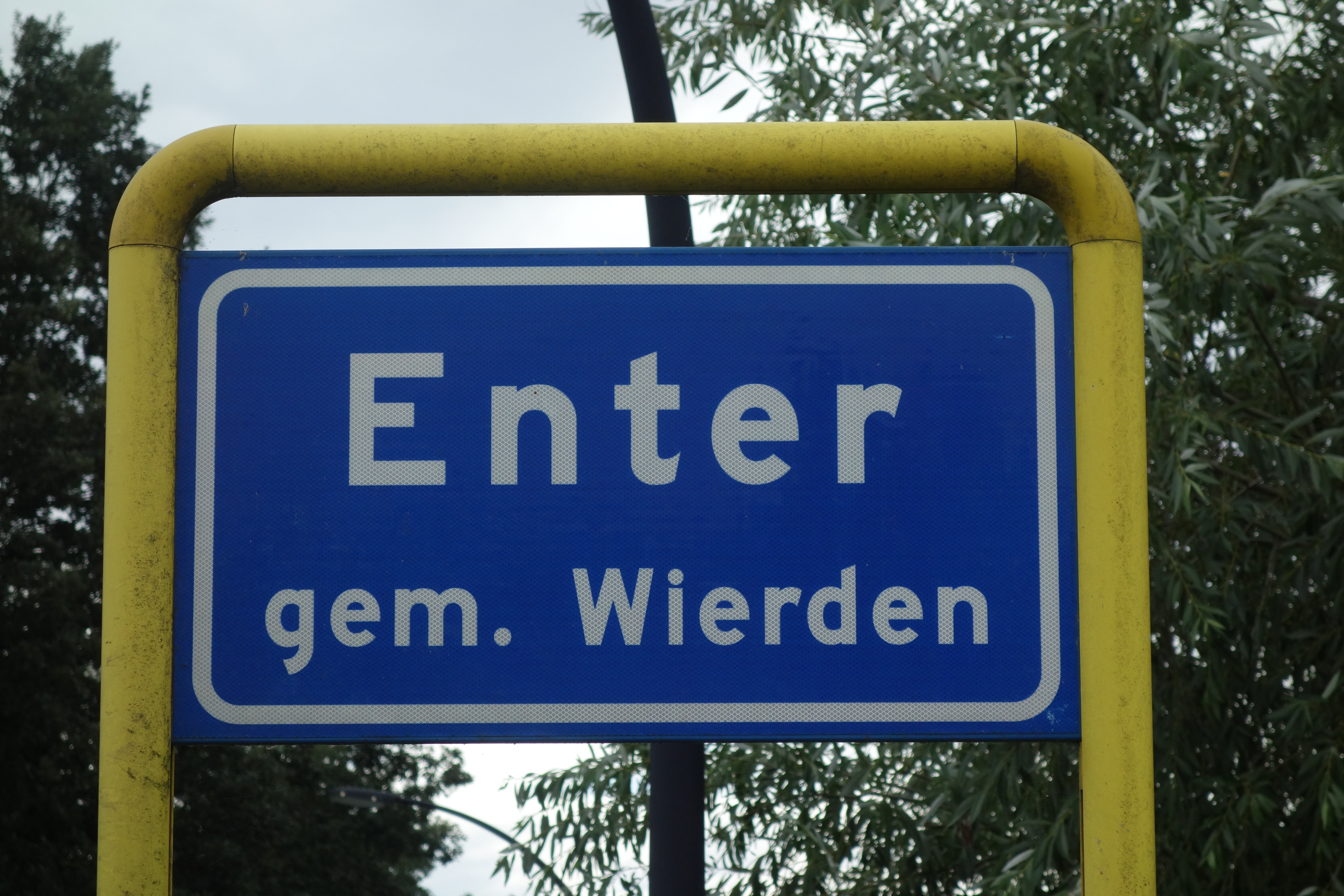 Village Enter, the Netherlands 2020